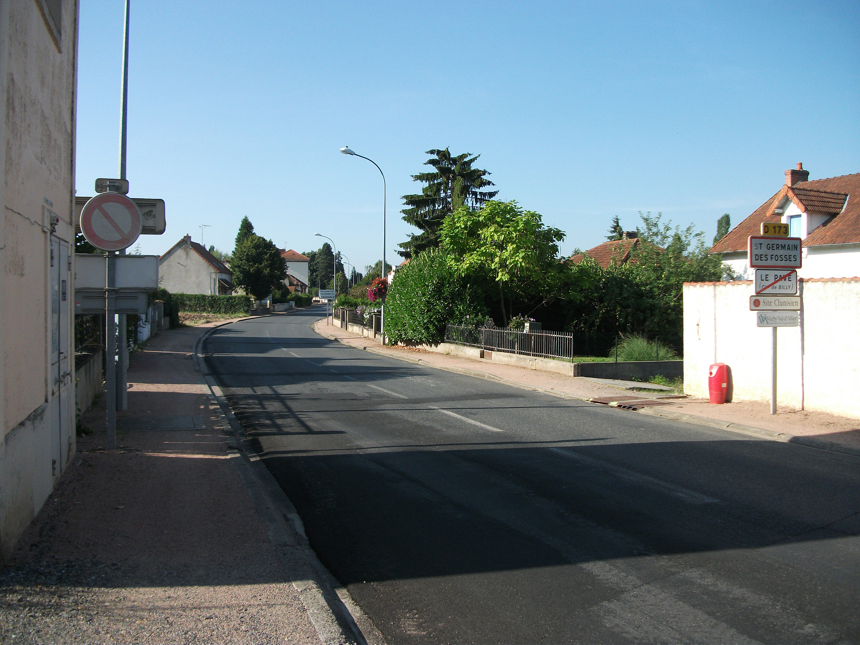 Departmental road 173 in Saint-Germain-des-Fossés, Allier, Auvergne, France. [8557]